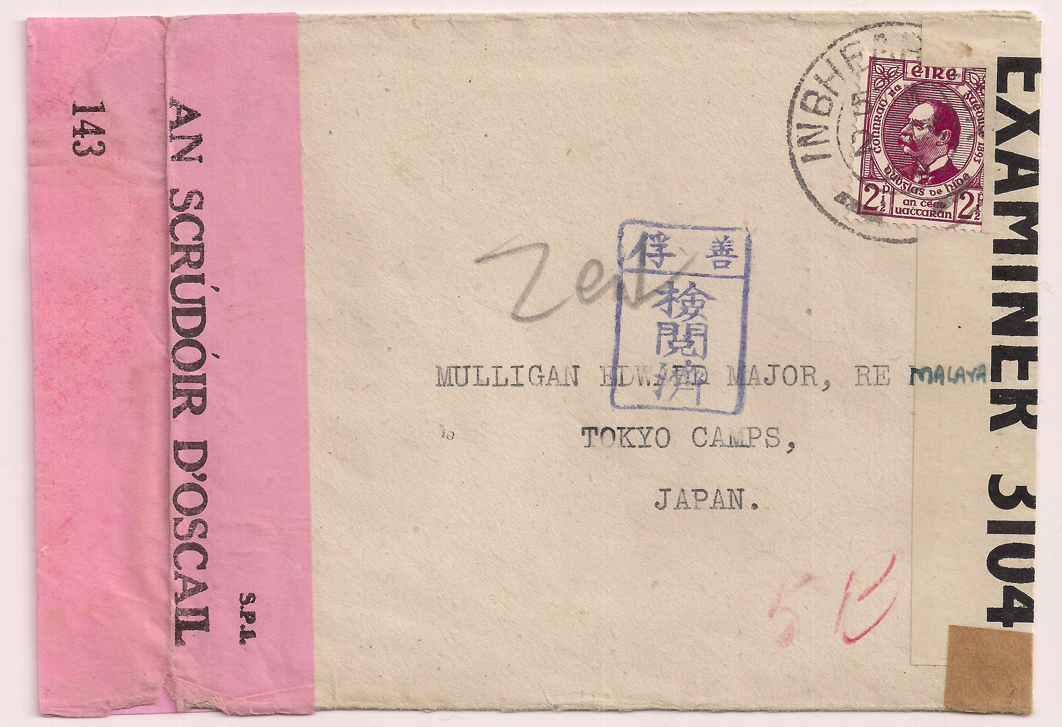 1943 triple censored cover from, "INBHEAR MHOR" (Arklow) Ireland to Japanese POW in Malaya, franked with 2 1/2d Douglas Hyde postage stamp, pink Irish censor label in Gaelic "AN SCRÚDÓIR D'OSCAIL" examiner no. 143, British censor label examiner no. 3104 and Japanese censor chop applied to front of envelope